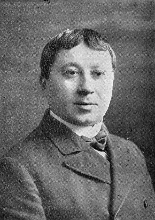 A Photograph of Auguste Aramini, 1905